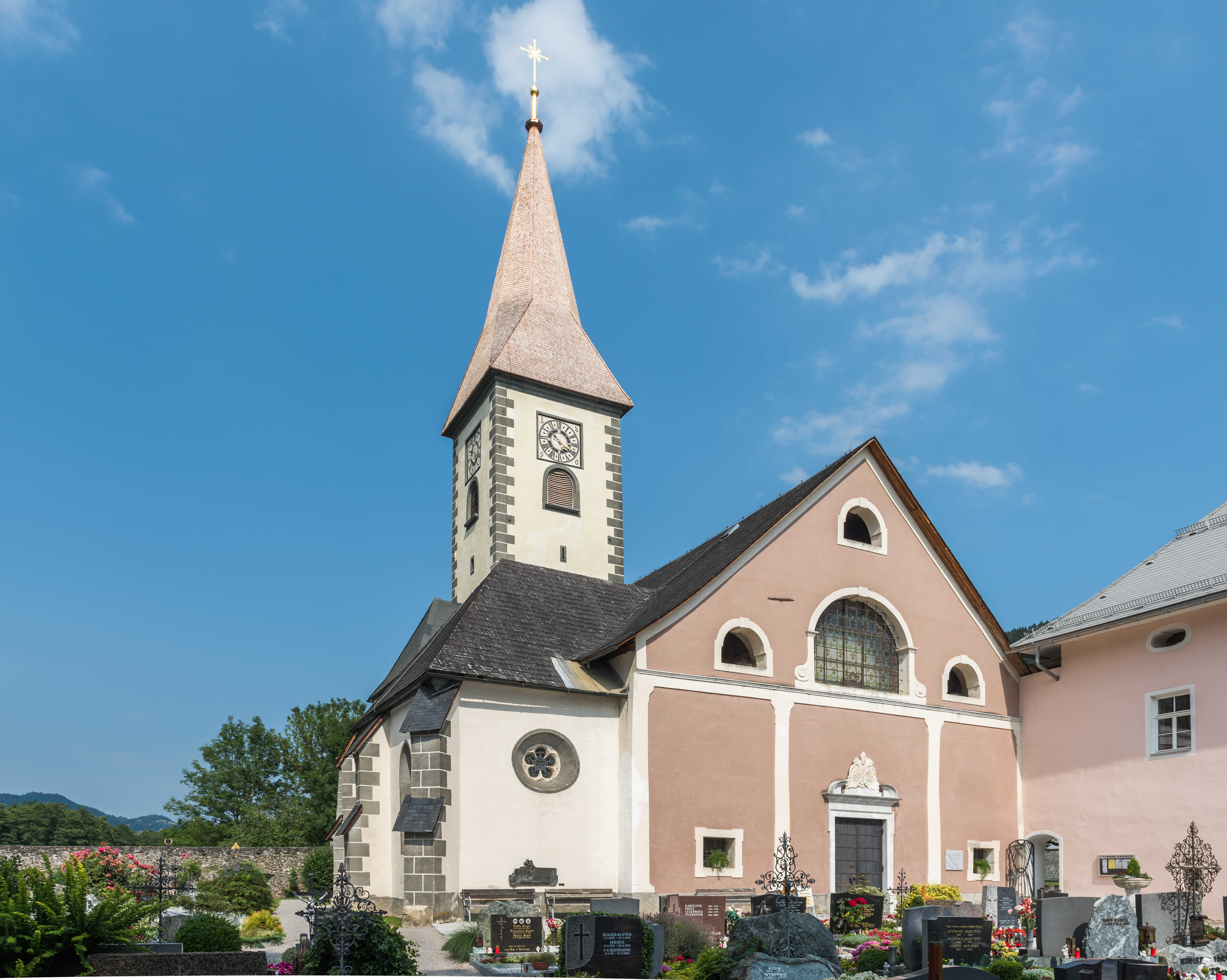 Cemetery with parish and monastery church "the Assumption“, Ossiach #1, municipality Ossiach, district Feldkirchen, Carinthia, Austria, EU